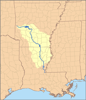 This is a map of the Ouachita River watershed — in Arkansas and Louisiana. Tributary of the Mississippi River. Credits I, Pfly, made it, based on USGS data.